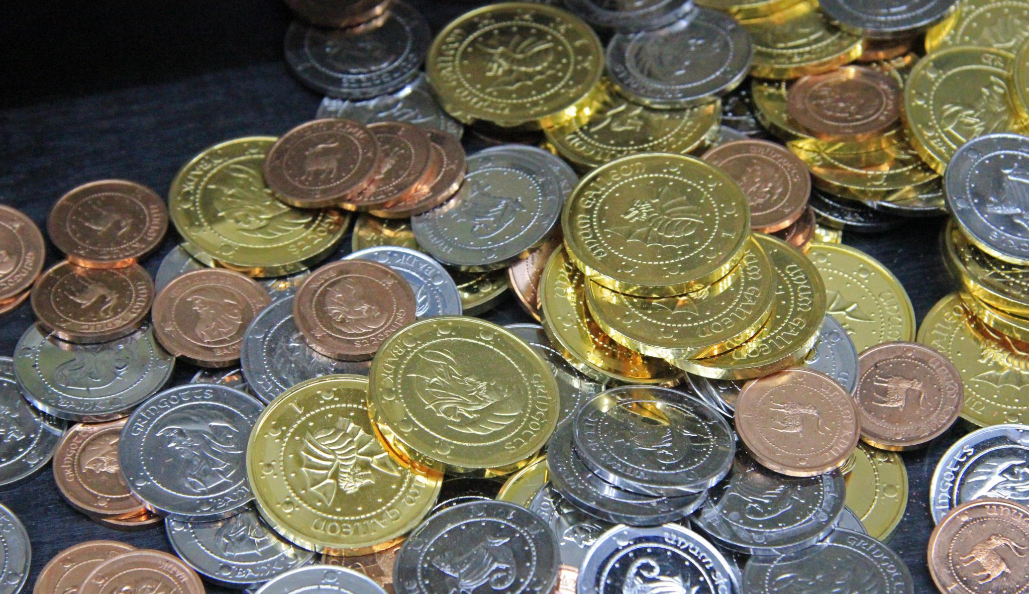 Warner Bros. Studio Tour London: The Making of Harry Potter.